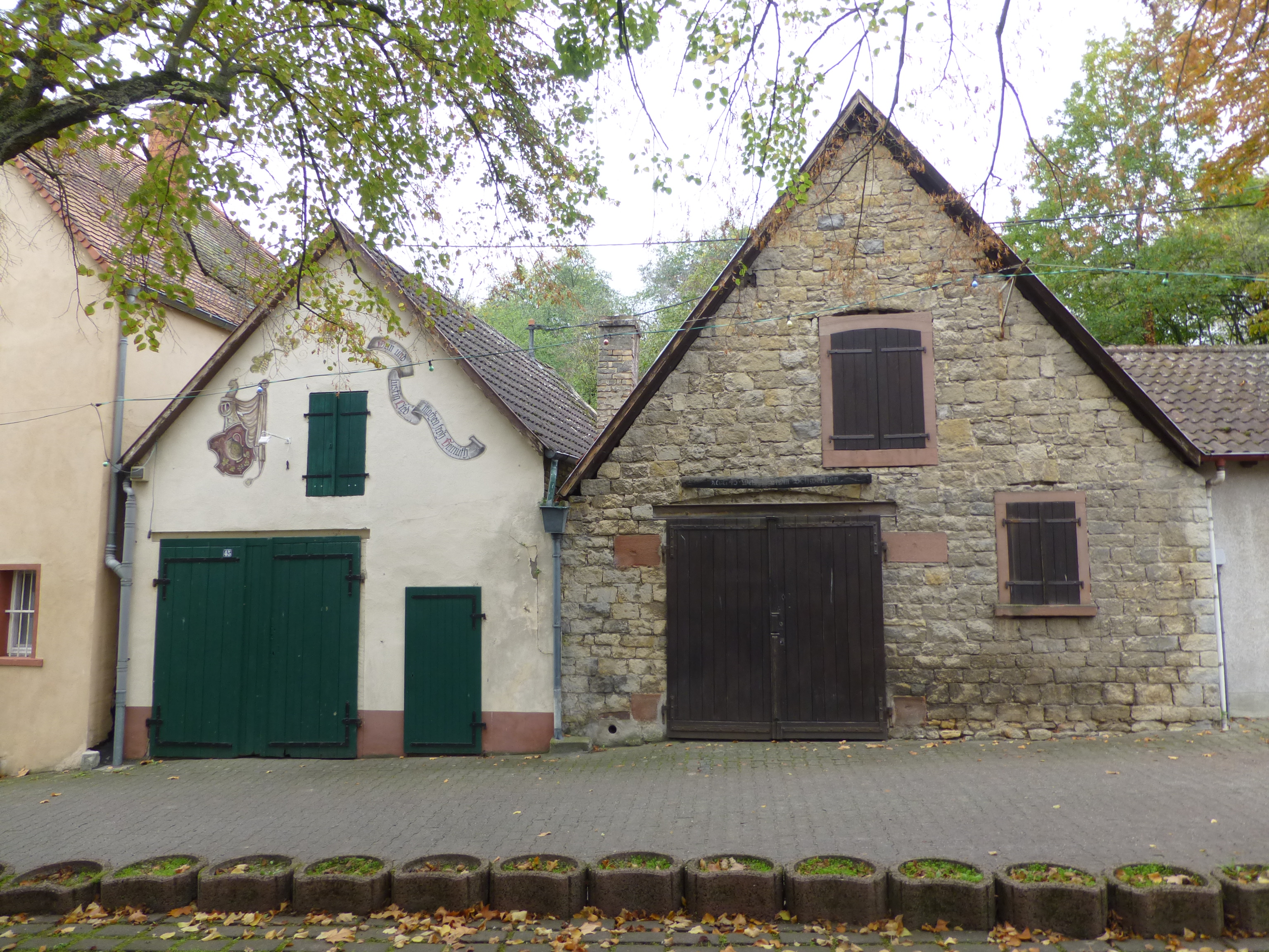 Kellerweg N°45 with fresco at left, presshouse at right, near fountain.